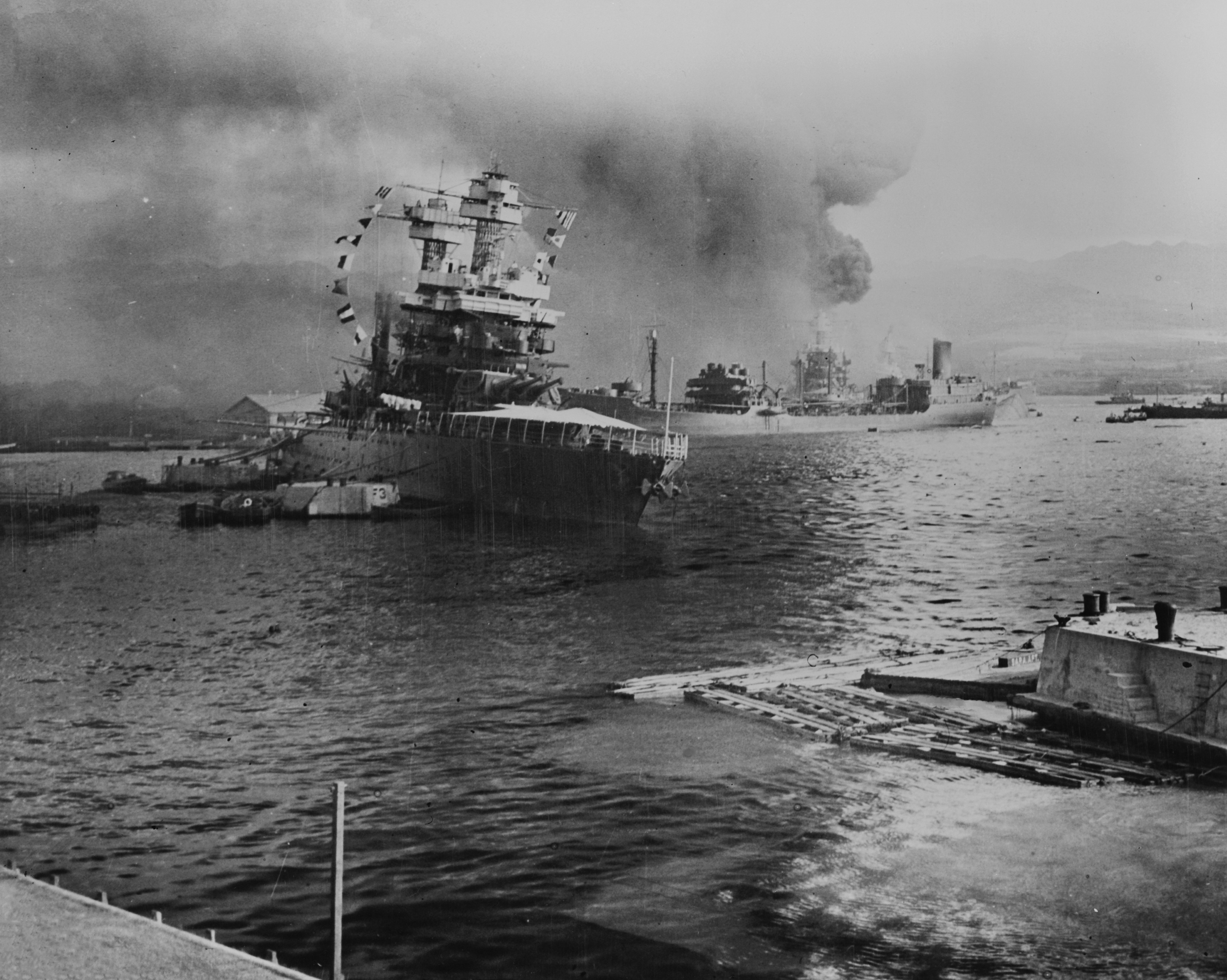 Leaves berth virtually surrounded by stricken ships. The U.S.S. Neosho, navy oil tanker, cautiously backs away from her berth (right center) in a successful effort to escape the Japanese attack on Pearl Harbor, Dec. 7, 1941. At left the battleship U.S.S. California lists after aerial blows. Other crippled warships and part of the hull of the capsized U.S.S. Oklahoma may be seen in the background. The Neosho was later sunk in the Coral Sea